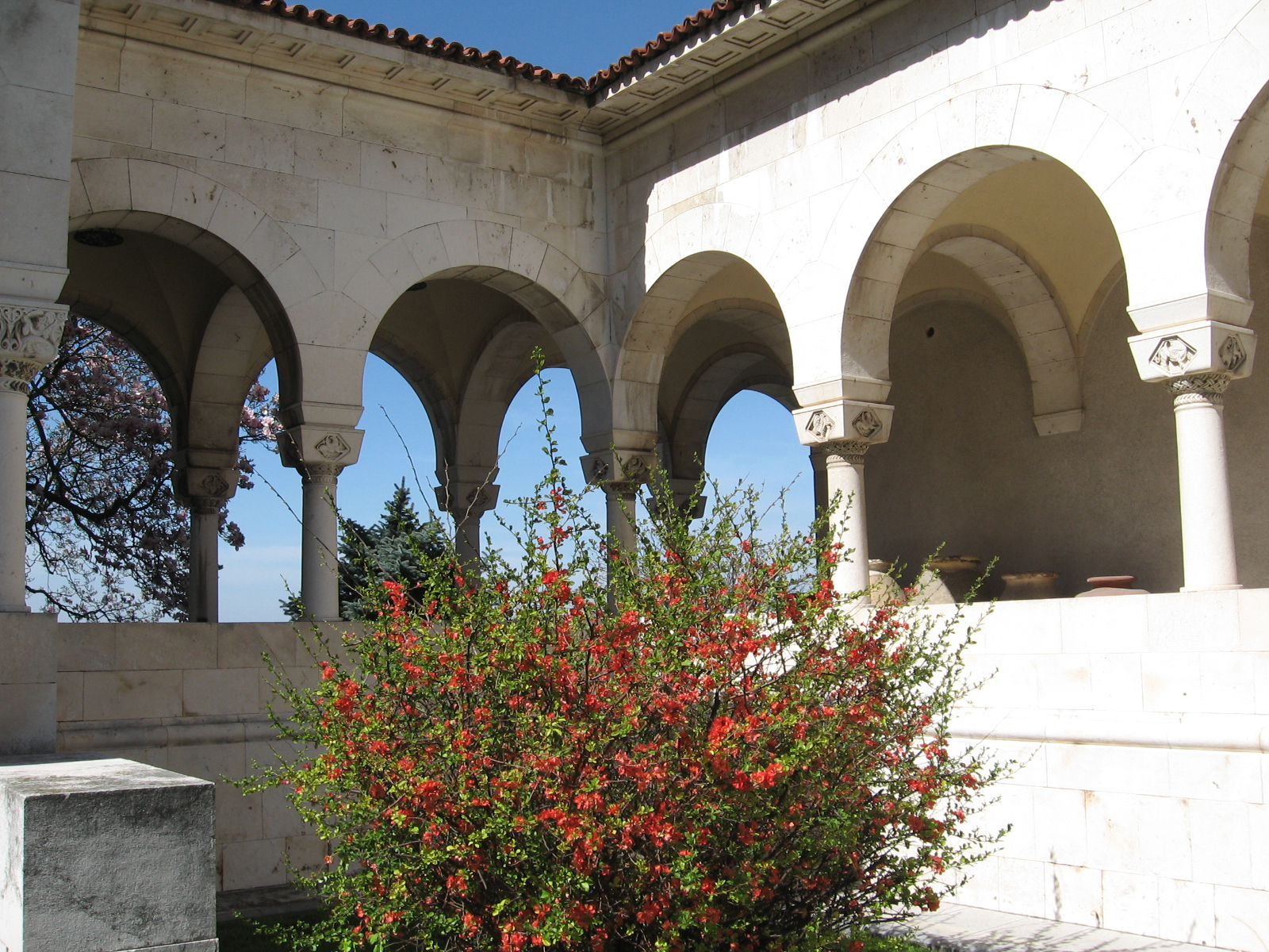 Kraljevski Dvor, Belgrade